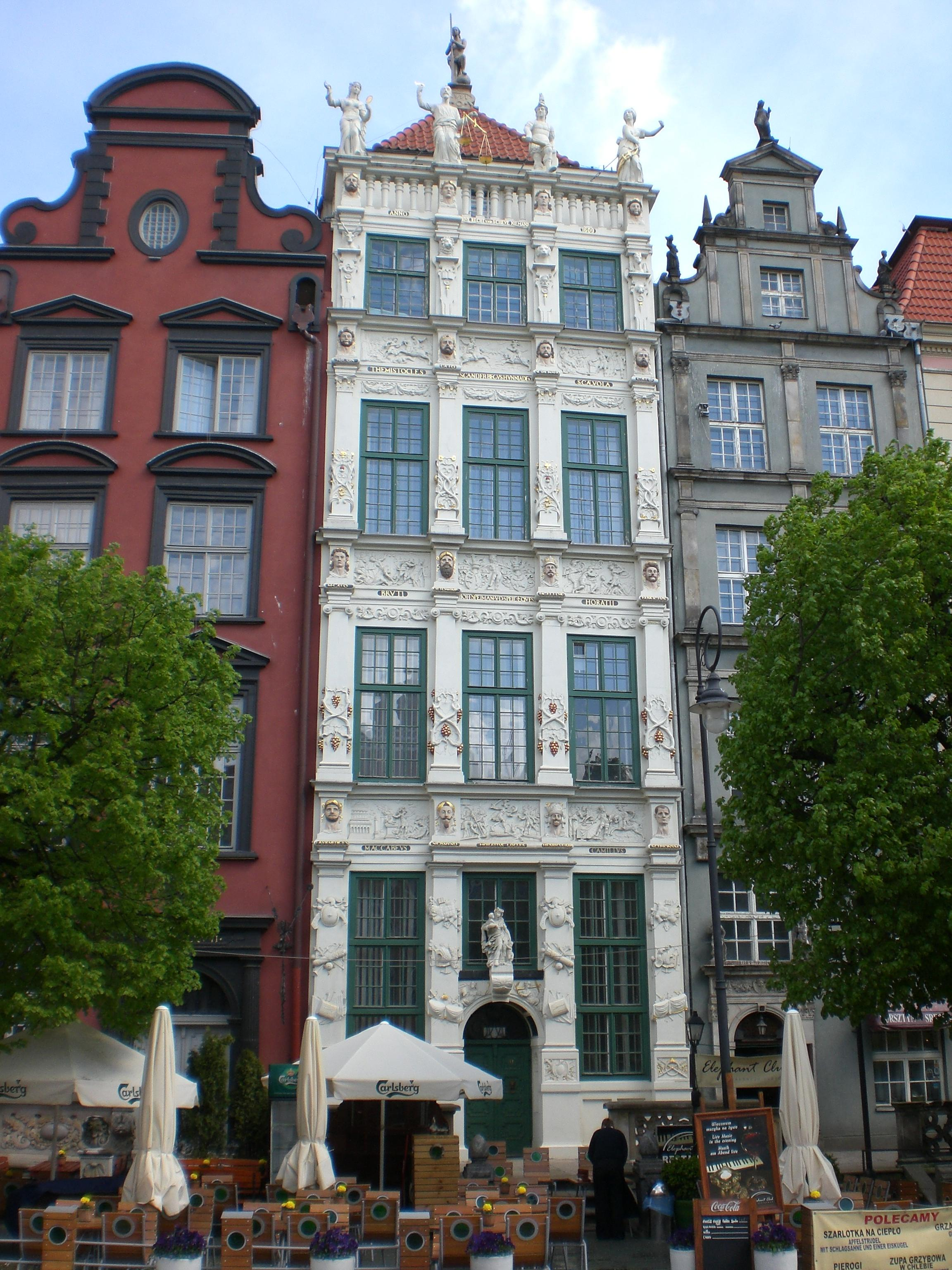 Golden House in Gdańsk